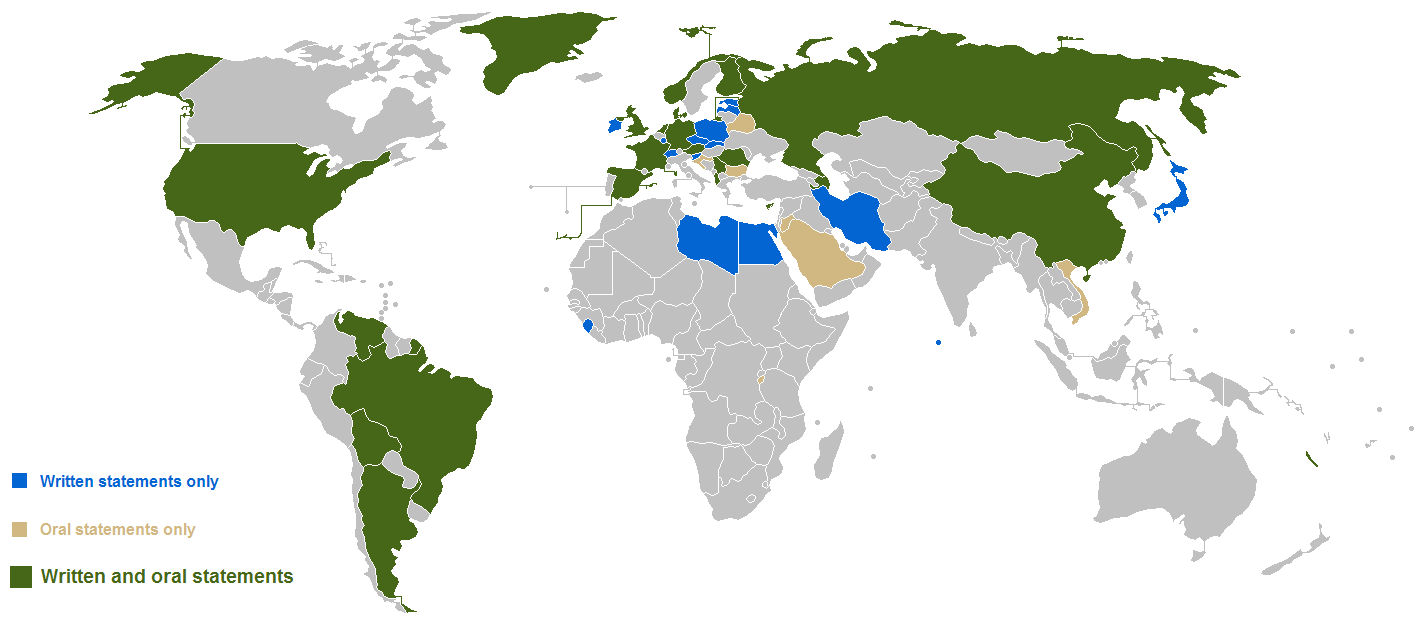 Map of countries that supplied written statements to the International Court of Justice regarding the Advisory opinion on the legality of Kosovo's unilaterally proclaimed independence